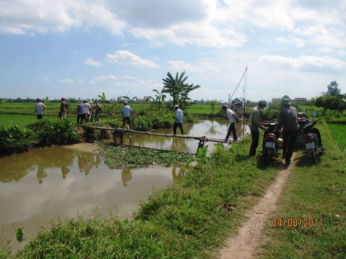 "Cầu khỉ" (monkey bridge) in Nam Dinh province, Vietnam